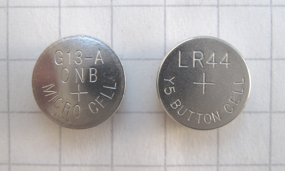 A G13-A and LR44 side by side. These batteries are replacements for each other being of the same package size, polarity, nominal voltage and chemical make-up. The background is a 7mm grid.